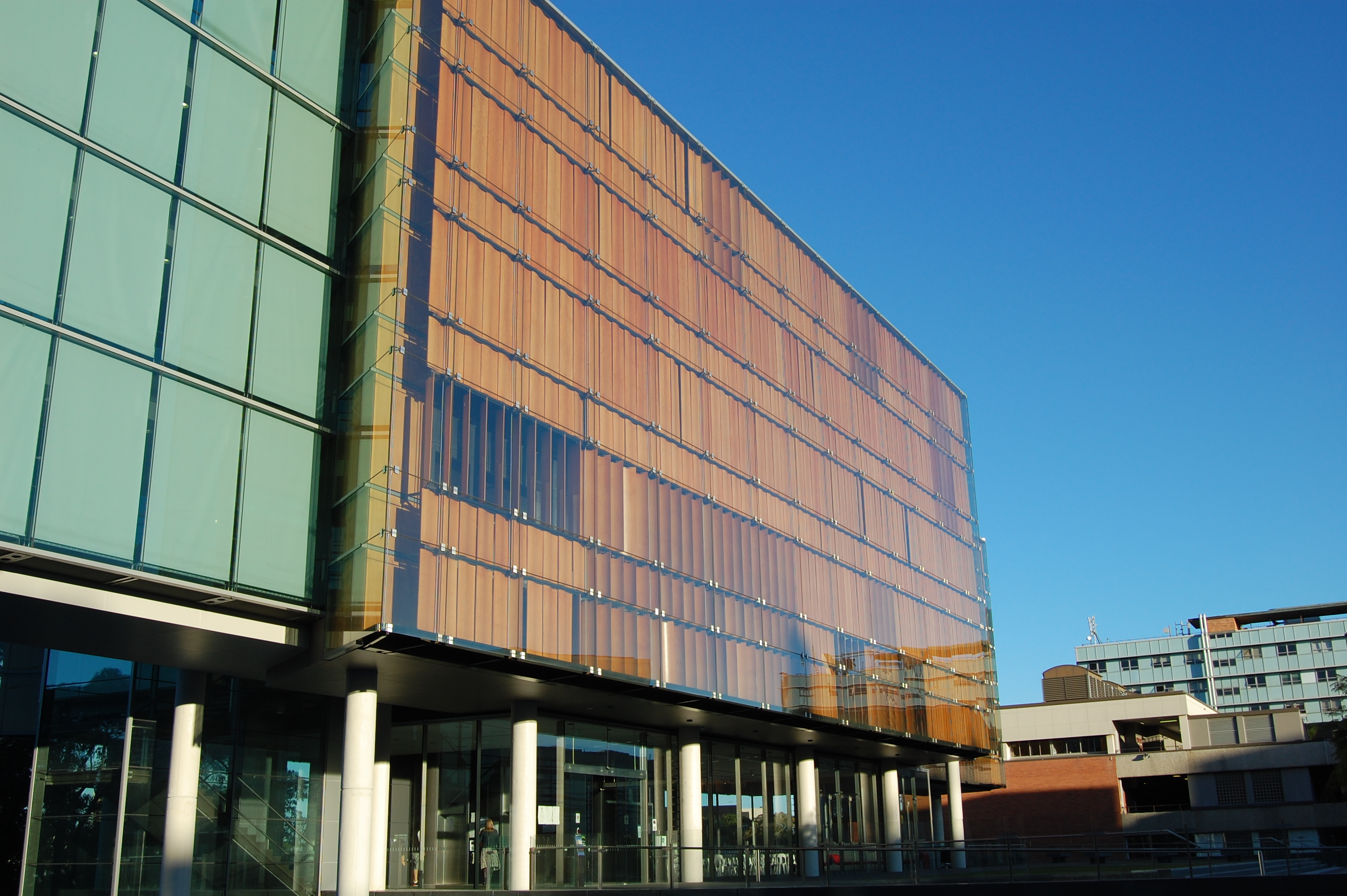 Law Building, University of Sydney